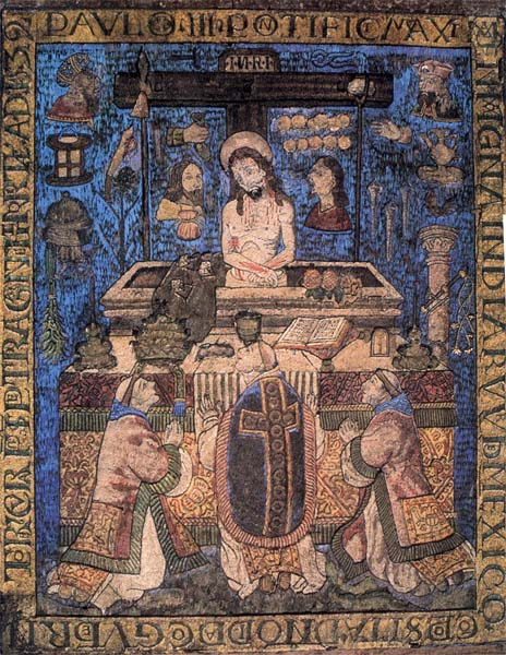 The Mass of St. Gregory as depicted by Diego Huanitzin, the Aztec puppet ruler under the Spanish between 1539 and 1541. This technique, Mexican feather work, was a specialty of Aztec craftsmen called amanteca. This particular piece is the oldest extant example of Christian art in the Americas.